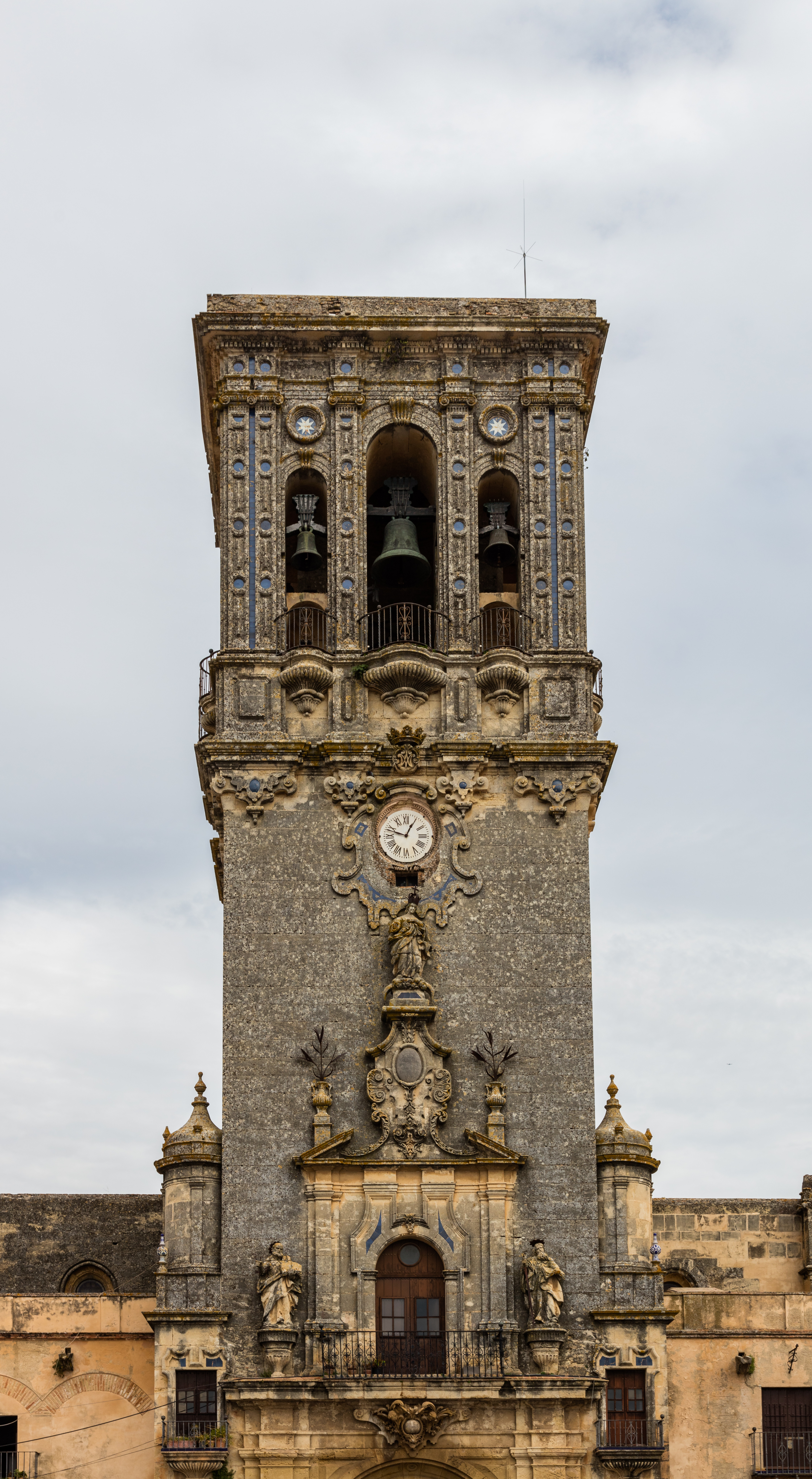 Church of Santa María de la Asunción, Arcos de la Frontera, Cádiz, Spain